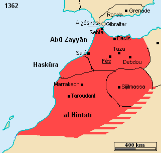 Magreb Al-Aksa in 1362 , Magreb Al-Aksa, acording to Ibn-Jatib